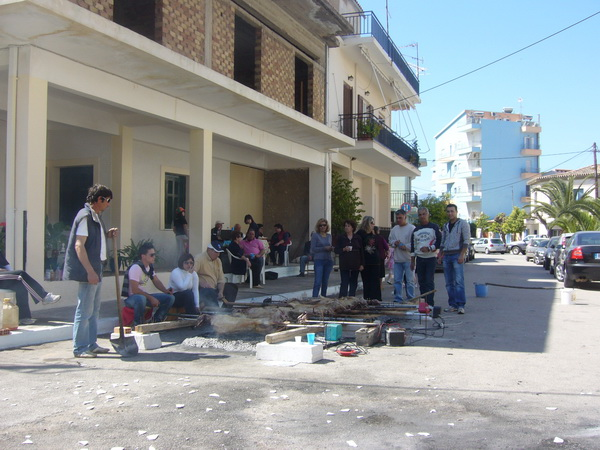 Ester in Itea, Phocis, Greece